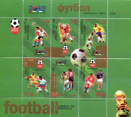 Stamp of Kyrgyzstan